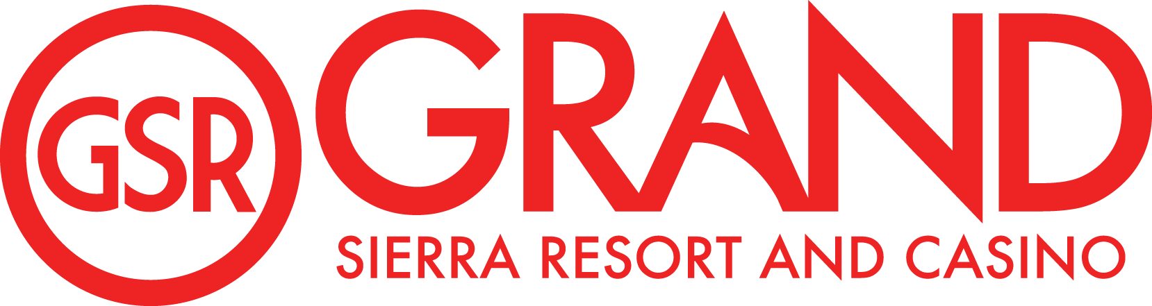 Logo of Grand Sierra Resort